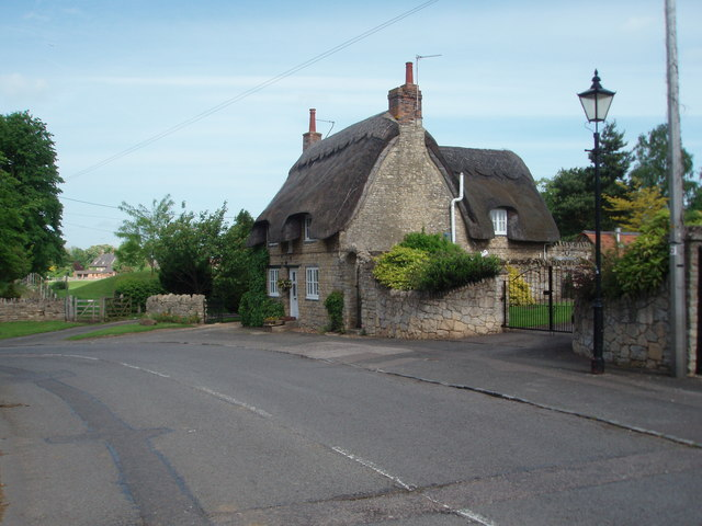 Castlethorpe Cottage A thatched house in Castlethorpe, which according to the date over the door is exactly 200 years older than I am!